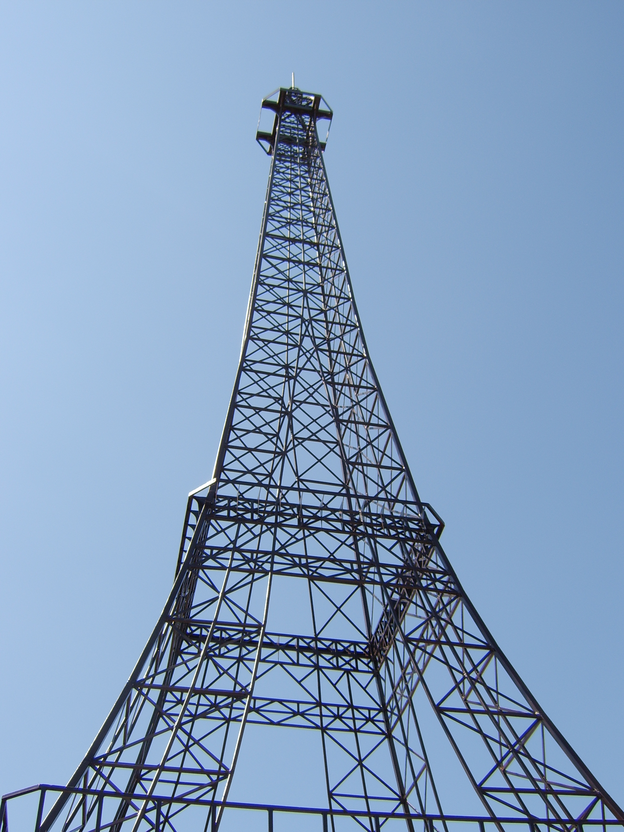 Eiffel Tower in the Miniature Park „The World of Dream" in Inwałd